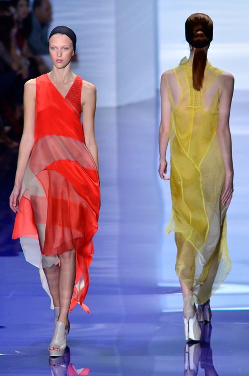 A model walks the runway at the Vera Wang Spring/Summer 2014 show at New York Fashion Week, September 2013.